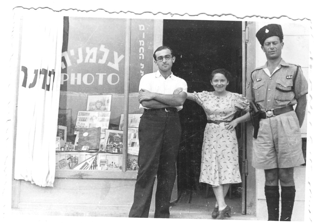 Ghaffir (Member of the Jewish Supernumerary Police) during the British Mandate in Kfar Saba